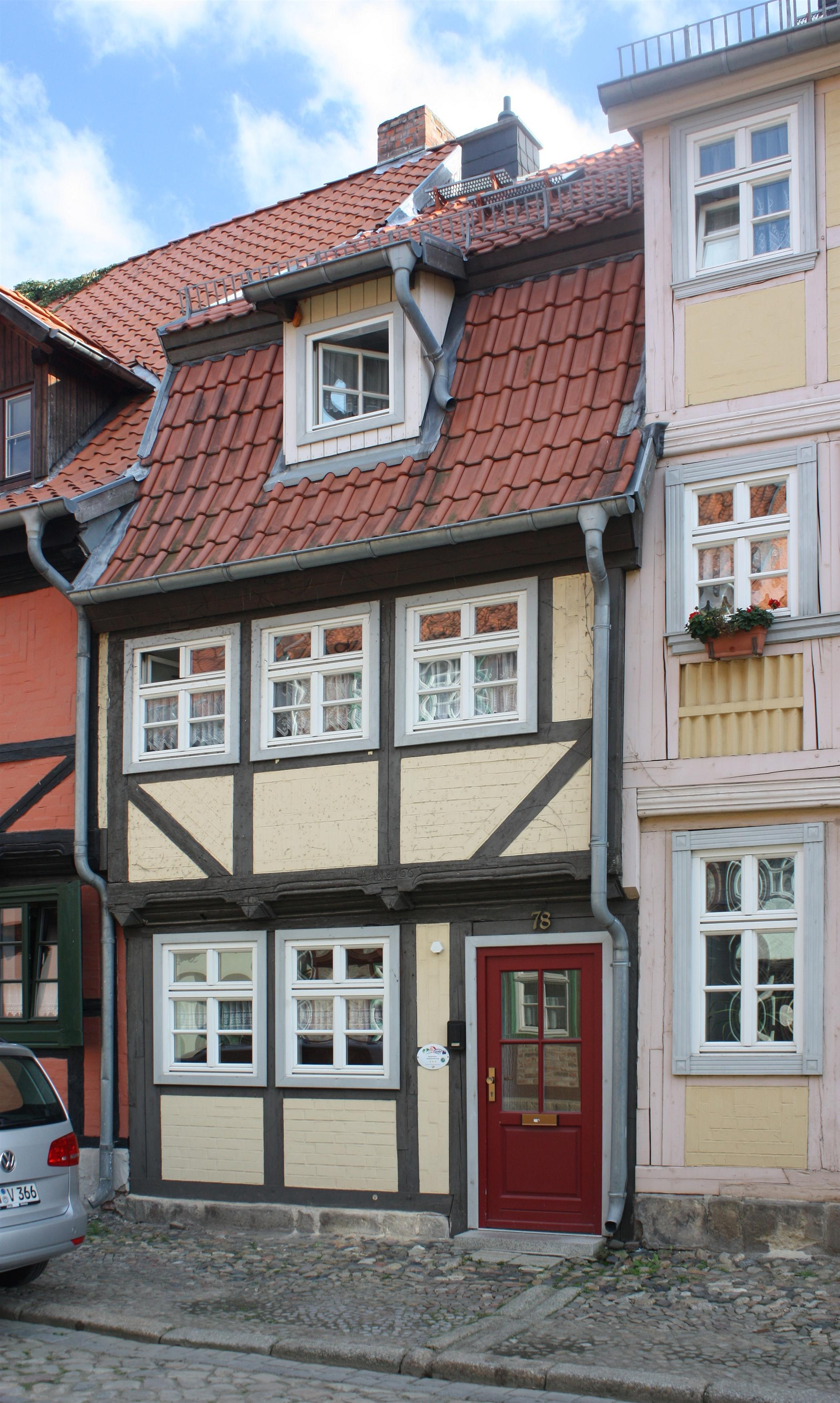 This is a photograph of an architectural monument.It is on the list of cultural monuments of Quedlinburg Augustinern 78 in Quedlinburg